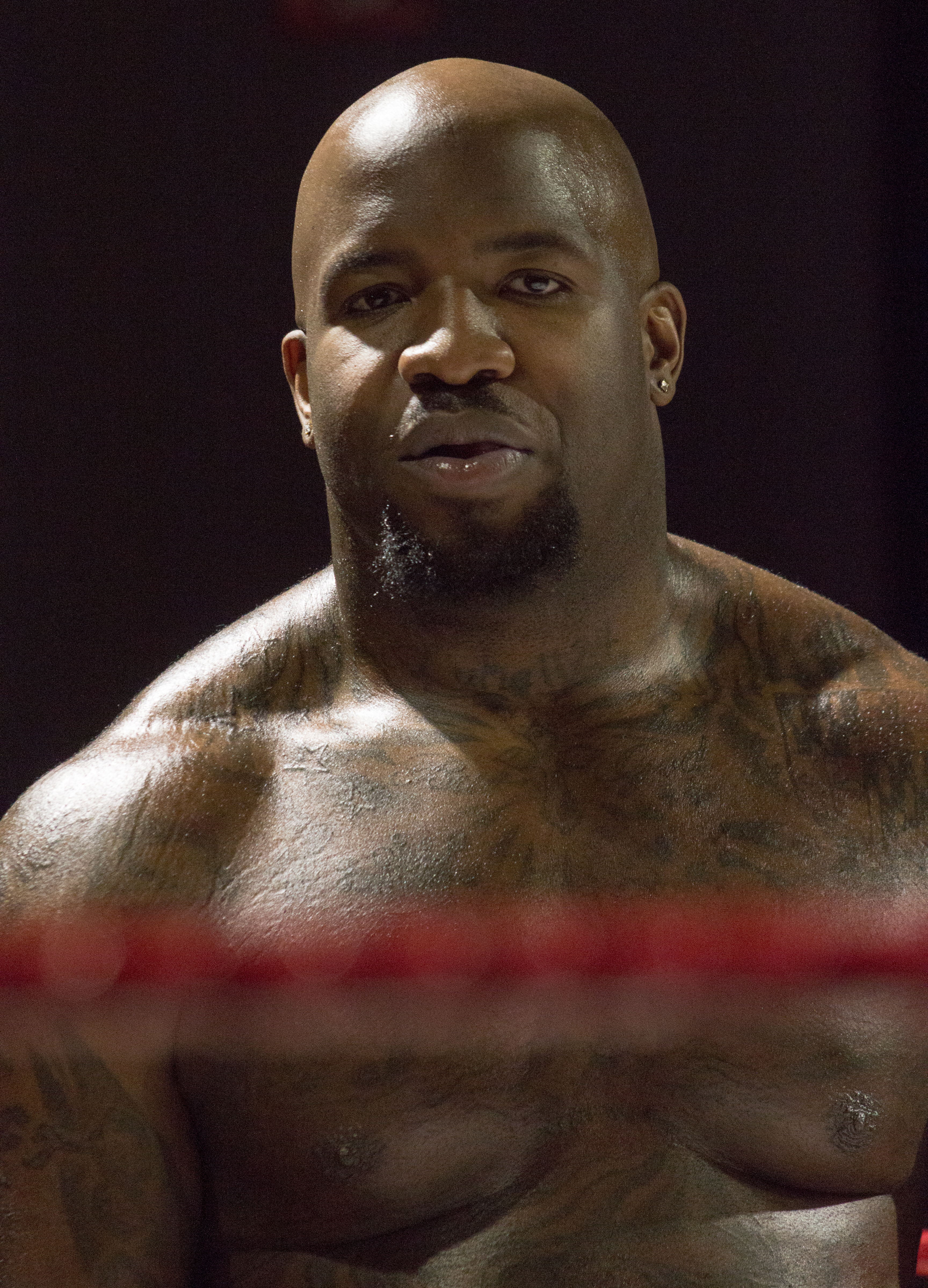 Ring of Honor star Moose (Quinn Ojinnaka) at a Destiny Wrestling show in Mississauga, ON